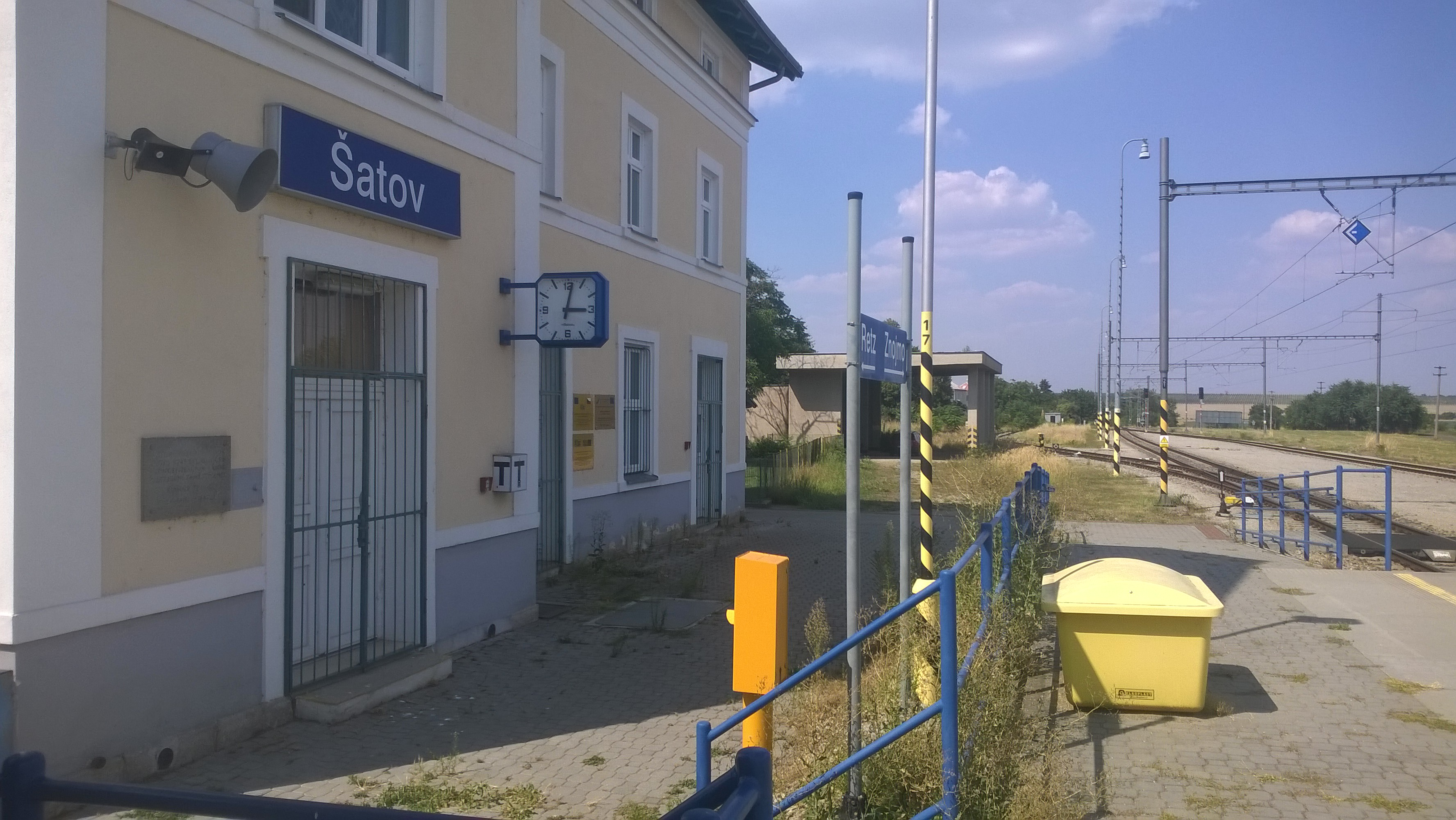 Šatov train station building and platform access ramp